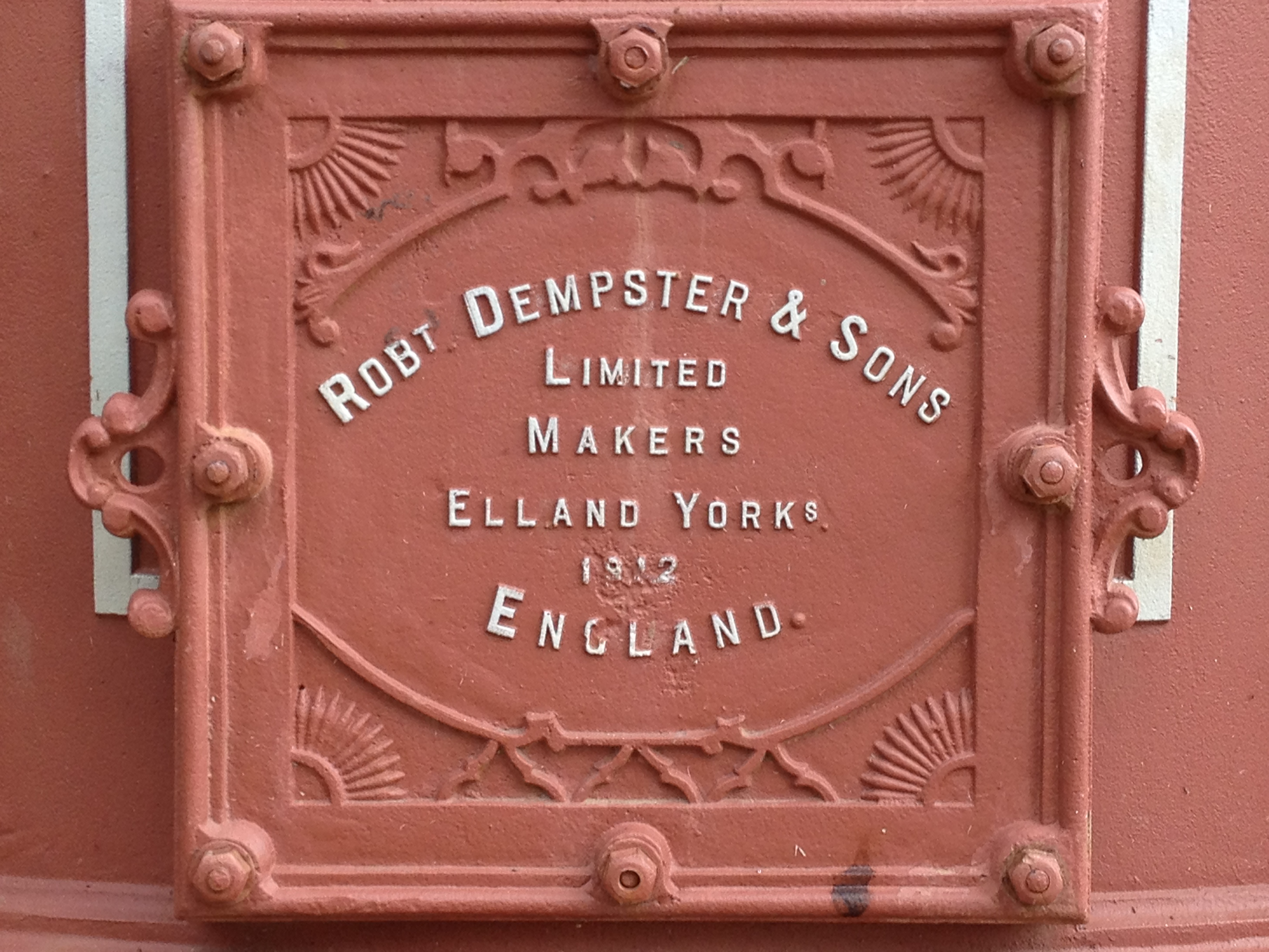 Gas Stripping Tower, in Davies Park, Brisbane, 5